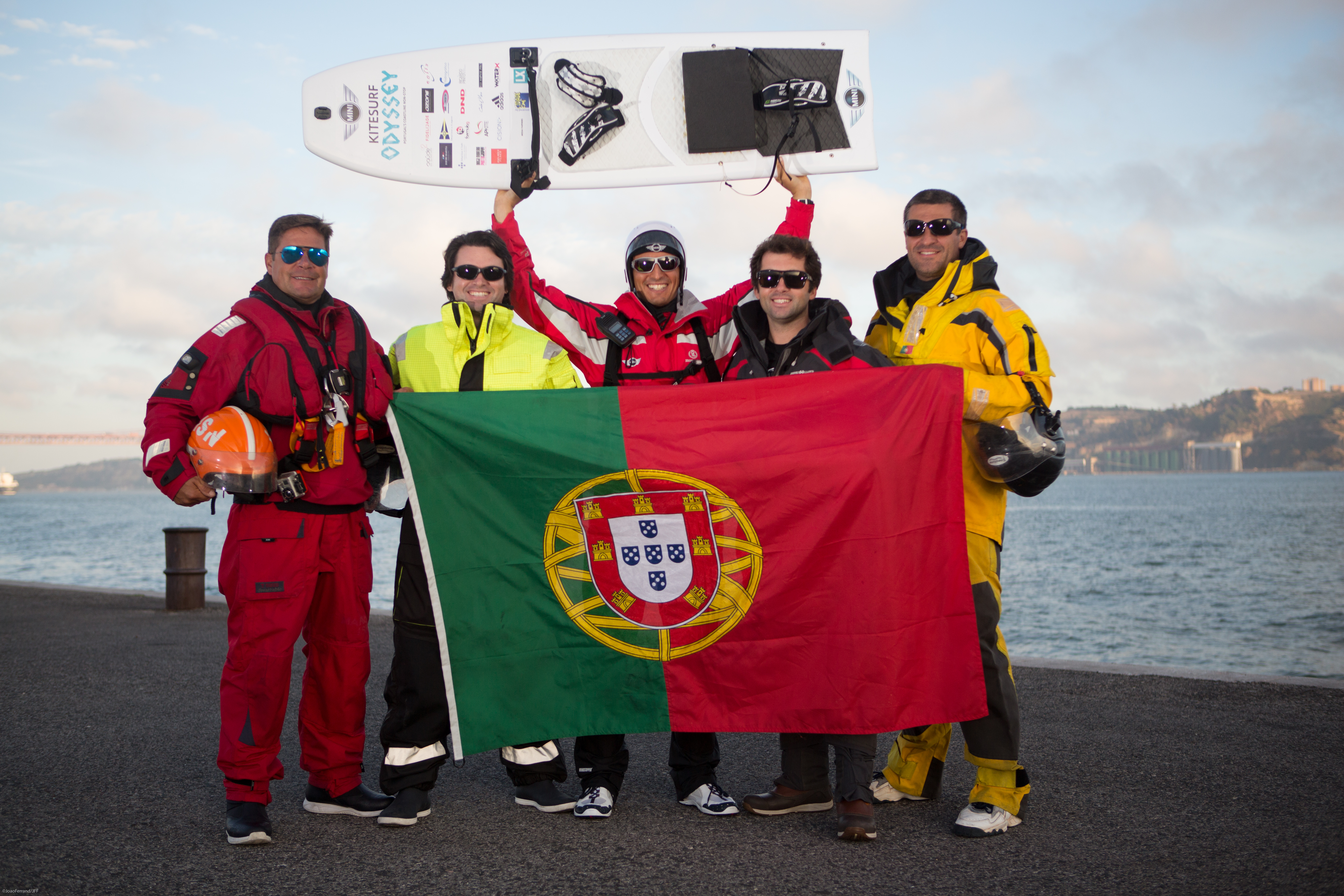 Francisco Lufinha's Team on the MINI Kitesurf Odyssey. JFF / João Ferrand